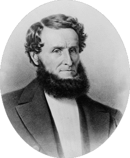 photo of James Lick